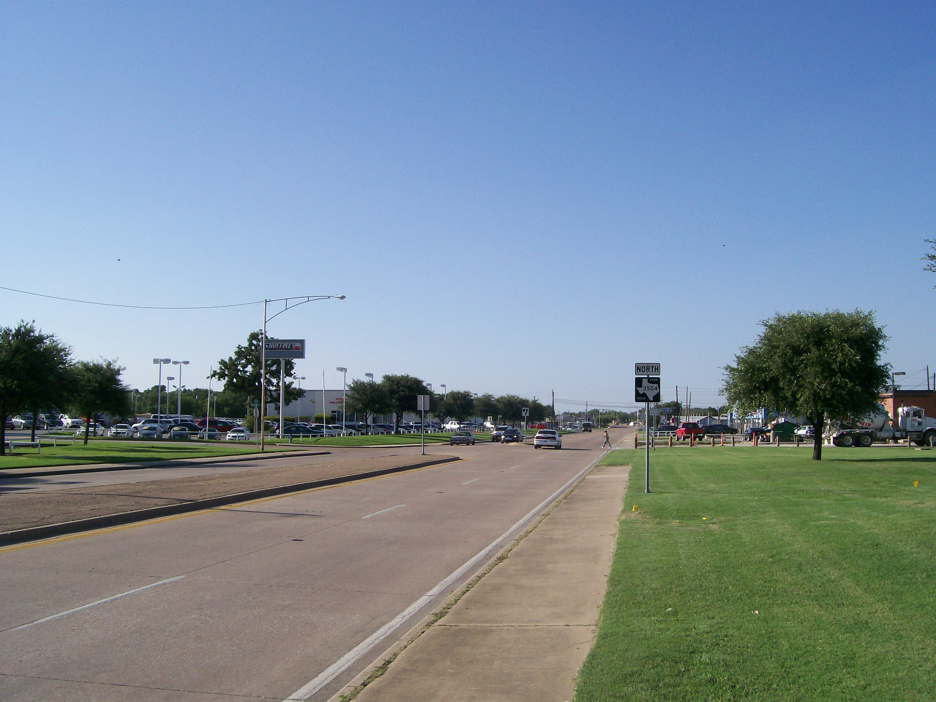 FM 3504 looking north from its southern terminus at the intersection with Business Highway 121 in Lewisville, Texas.